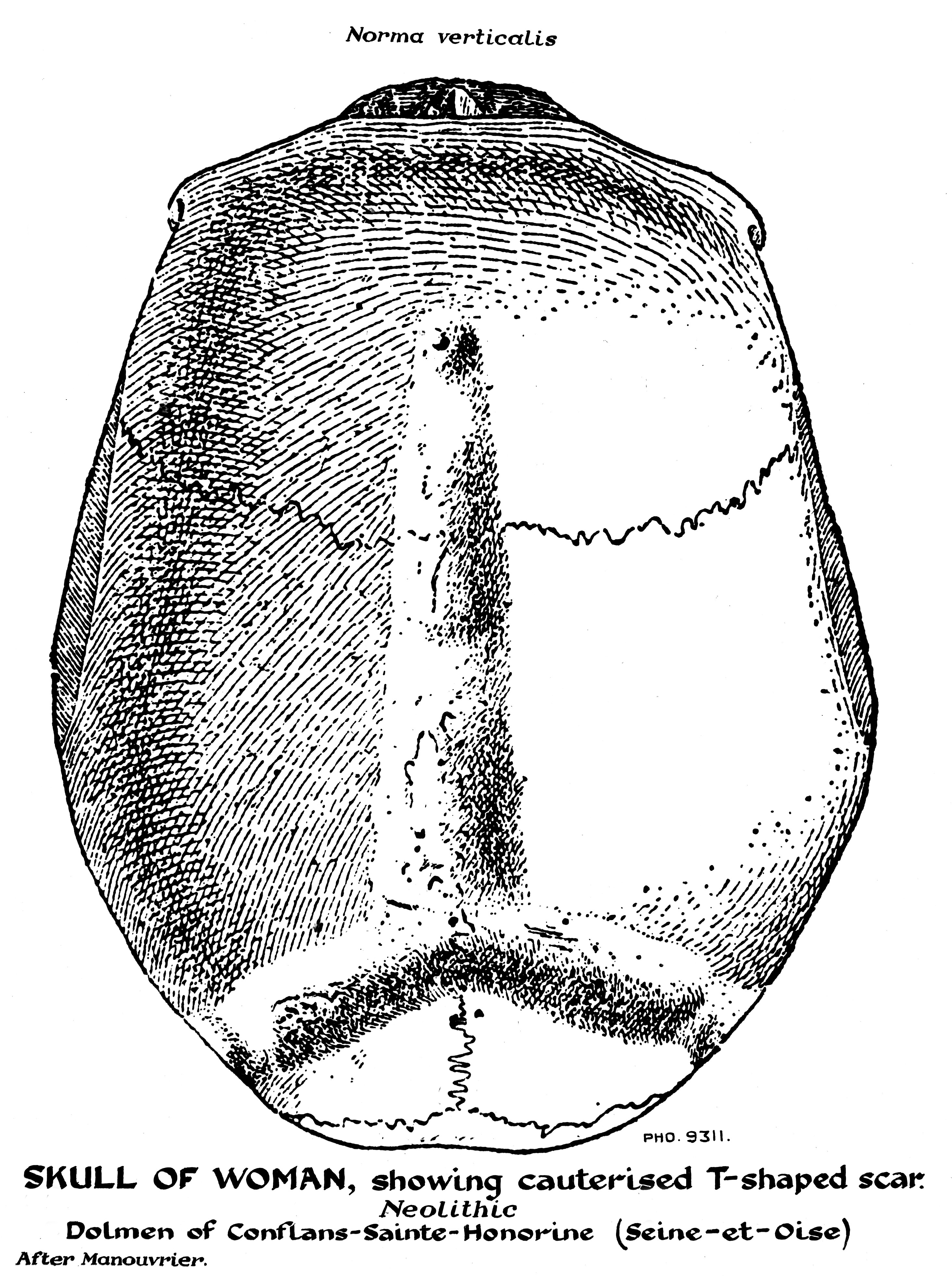 Skull of woman showing cauterised T-shaped scar, Neolithic. Dolmen of Conflans-Sainte-Honorine (seine-Et-Oise) Wellcome Images Keywords: Trephination; prehistoric surgery